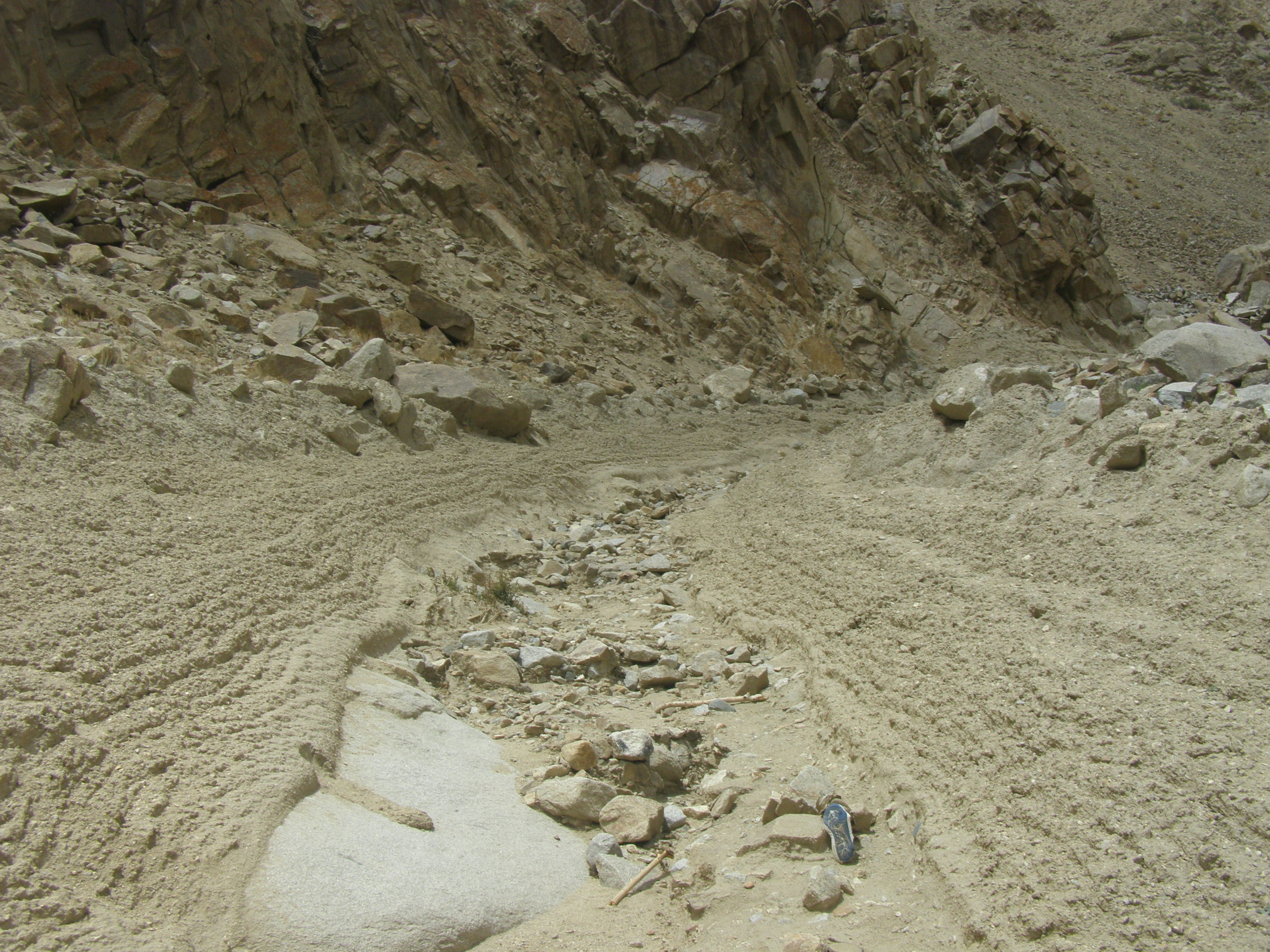 Debris flow channel in Ladakh, NW Indian Himalaya, produced in the storms of August 2010. Morphology is characteristic of debris flow deposits. Note coarse bouldery levees on both sides of the channel, mud drape on the insides of these levees, and poorly sorted rocks on floor of channel. The banding on the sides of the channel are evidence of pulsing in the flow during its waning stage. "Drip" structure on left side of the channel demonstrates the non-newtonian rheology of the debris flow material, which has failed and flowed down the rock below after deposition of the levee.